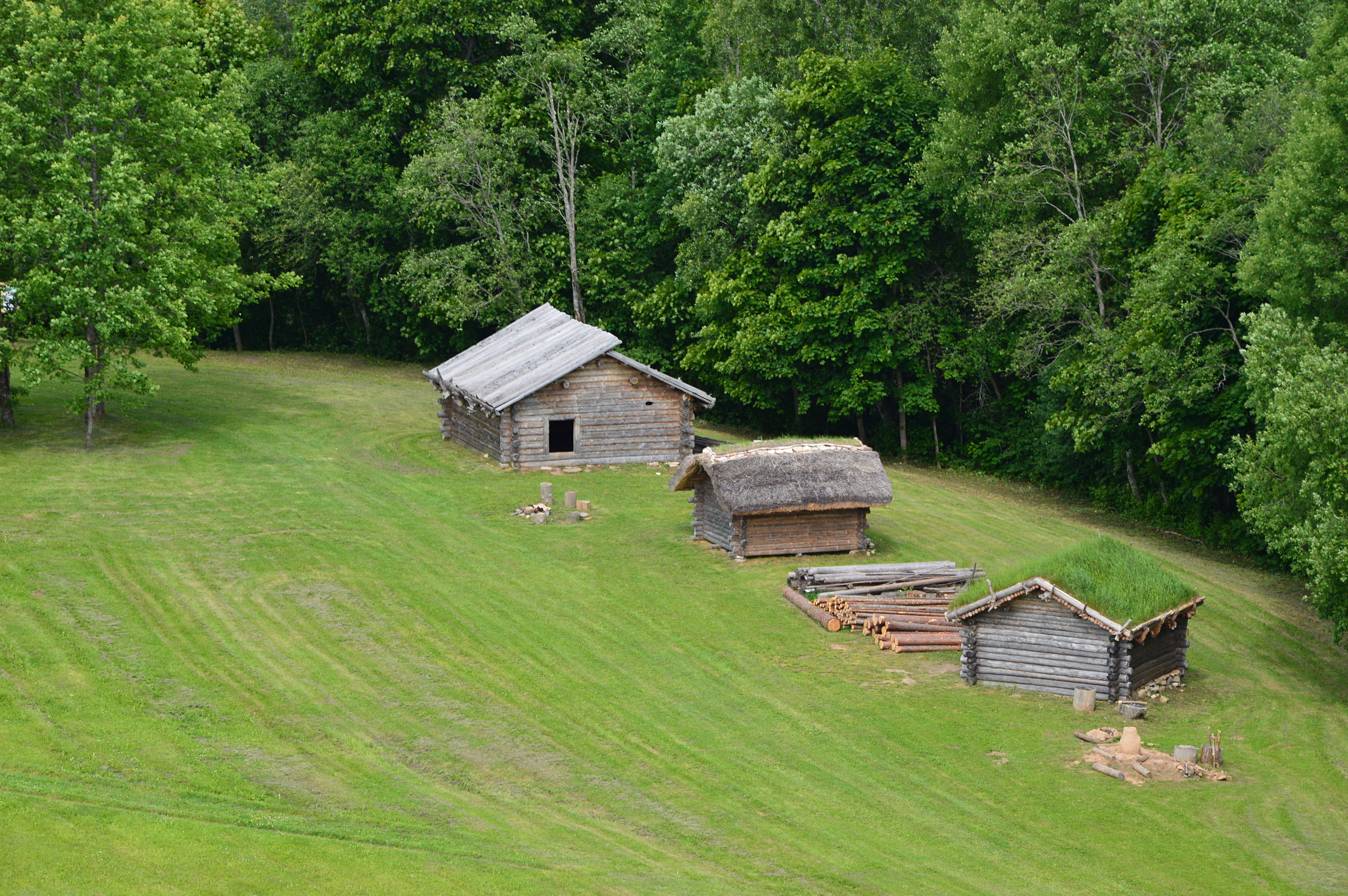 Rõuge ancient farm in Võru County, Estonia. An experimental archeological project to reconstruct a residential house from the Viking era.